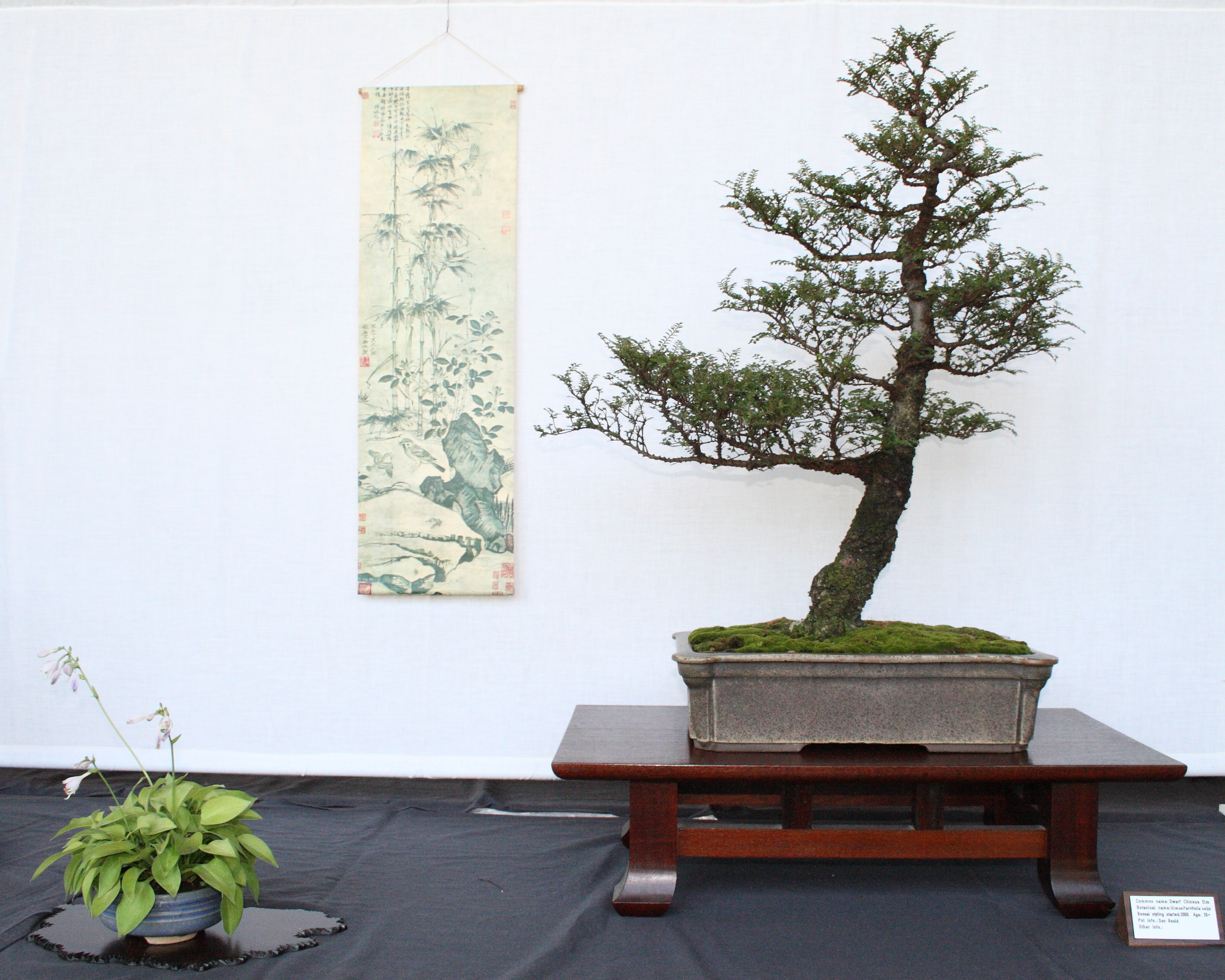 A Seiju elm (Ulmus parvifolia 'Seiju') bonsai on display on display at the 2009 annual show of The Bonsai Society of Greater Hartford. The display includes a number of elements of traditional bonsai presentation: the tree is in a ceramic pot on a decorative wooden table, and the display area includes a shitakusa (companion planting) of miniature hosta and a kakemono (hanging scroll).